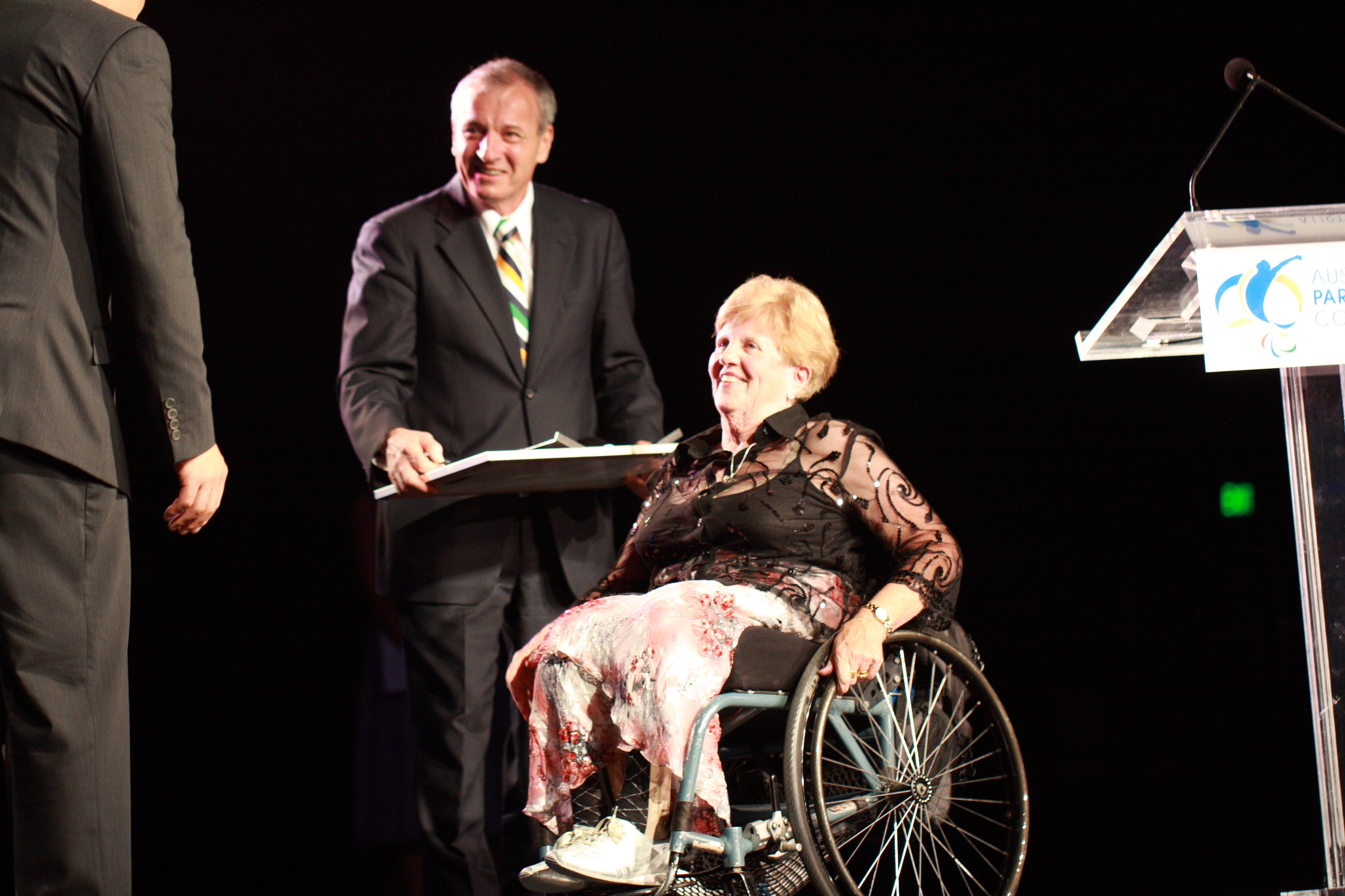 Australian Paralympian of the Year 2012 ceremony at the Hordern Pavilion, Sydney, Australia.